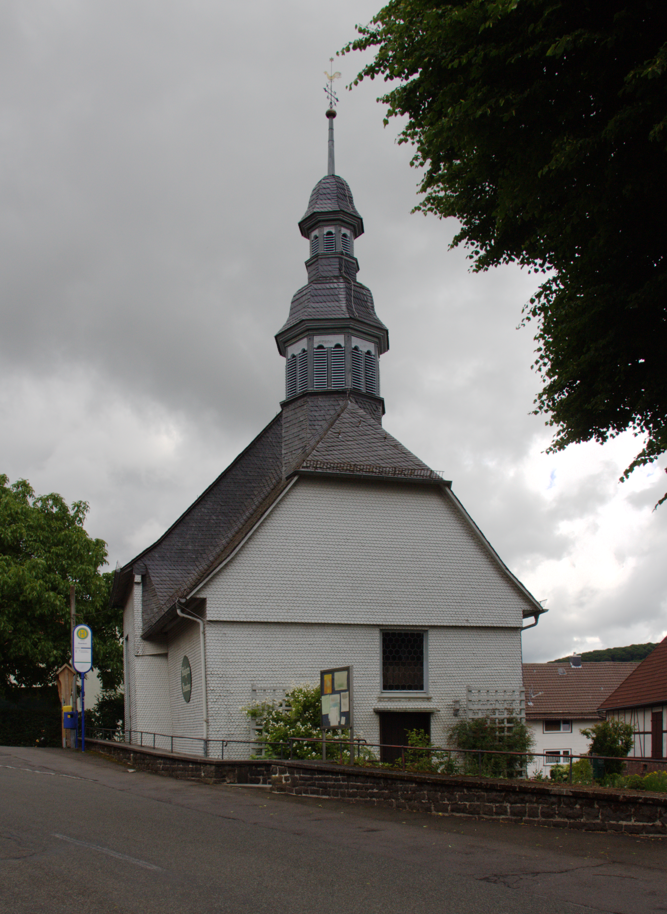 Protestant church in Busenborn Schotten, Hesse, Germany